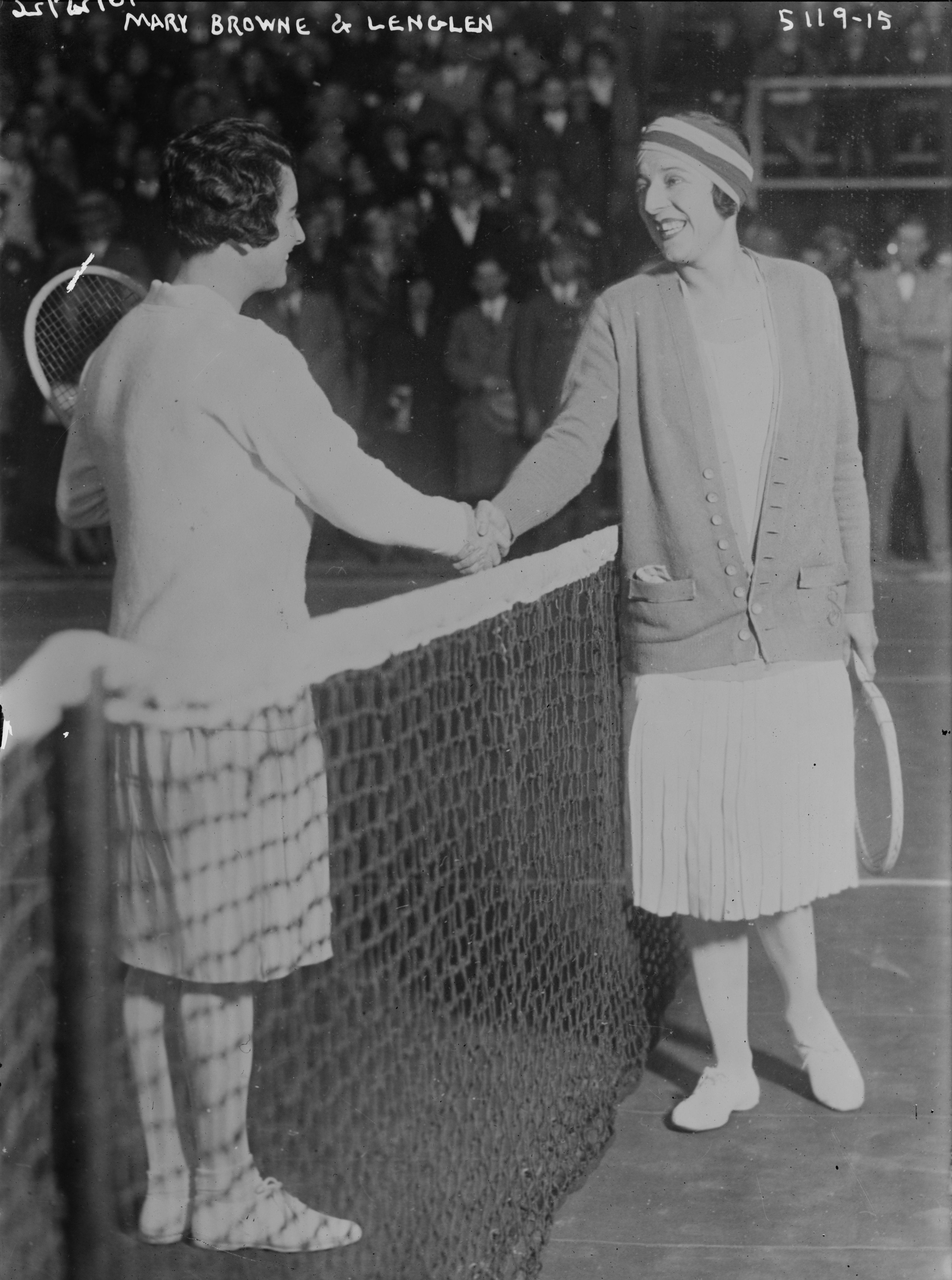 Title: Mary Browne & Lenglen [Tennis] Abstract/medium: 1 negative : glass ; 5 x 7 in. or smaller.